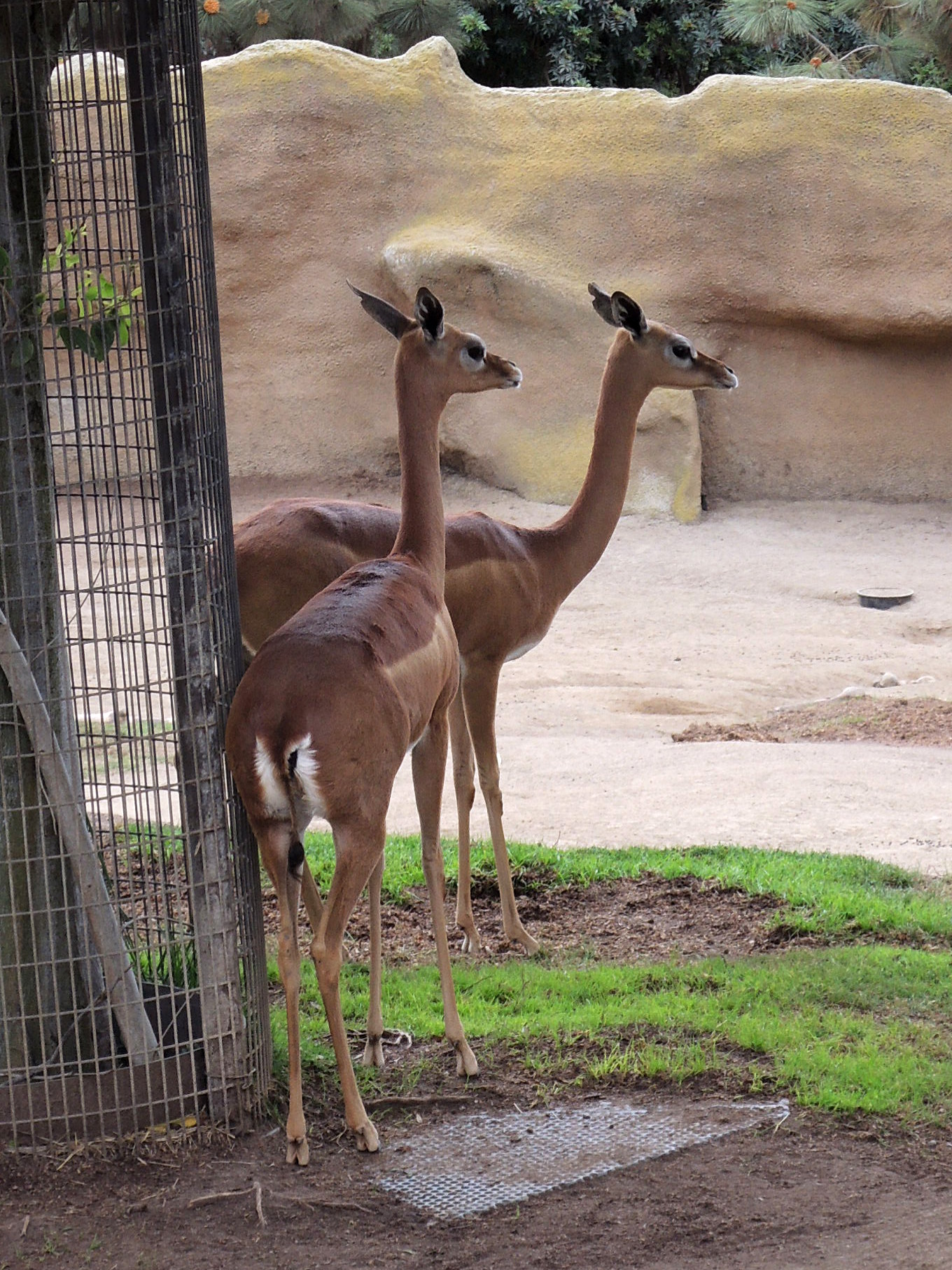 Southern Gerenuk (Litocranius walleri walleri) in San Diego Zoo.